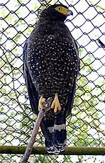 The rare Andaman Serpent-eagle (Spilornis elgini). Note that only the low resolution version is freely licensed. The full resolution version (here) is not.